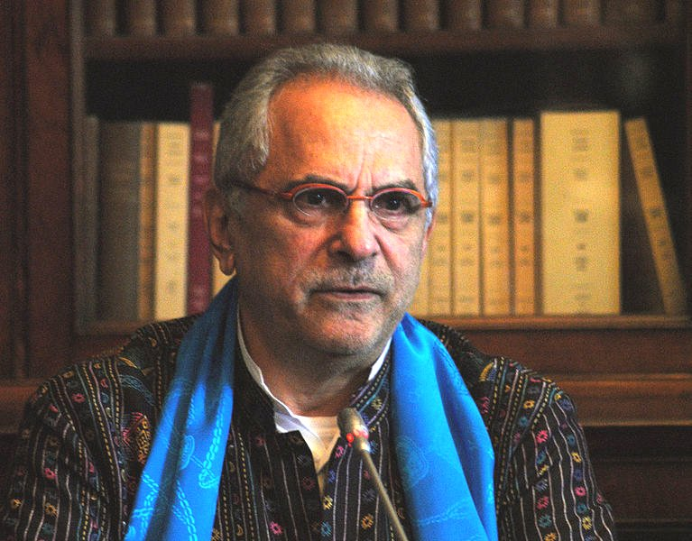 Guinea-Bissau: Rescue from Collapse? 29 October 2013 cht.hm/196HpaH